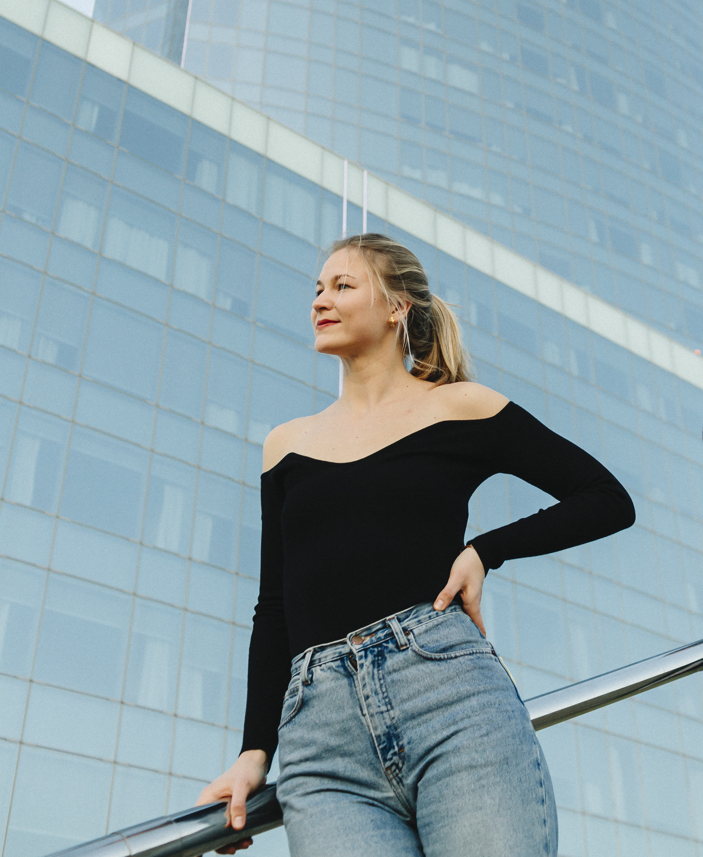 ANNNA at the WHotel in Barcelona during a ADE organised writing weekend.